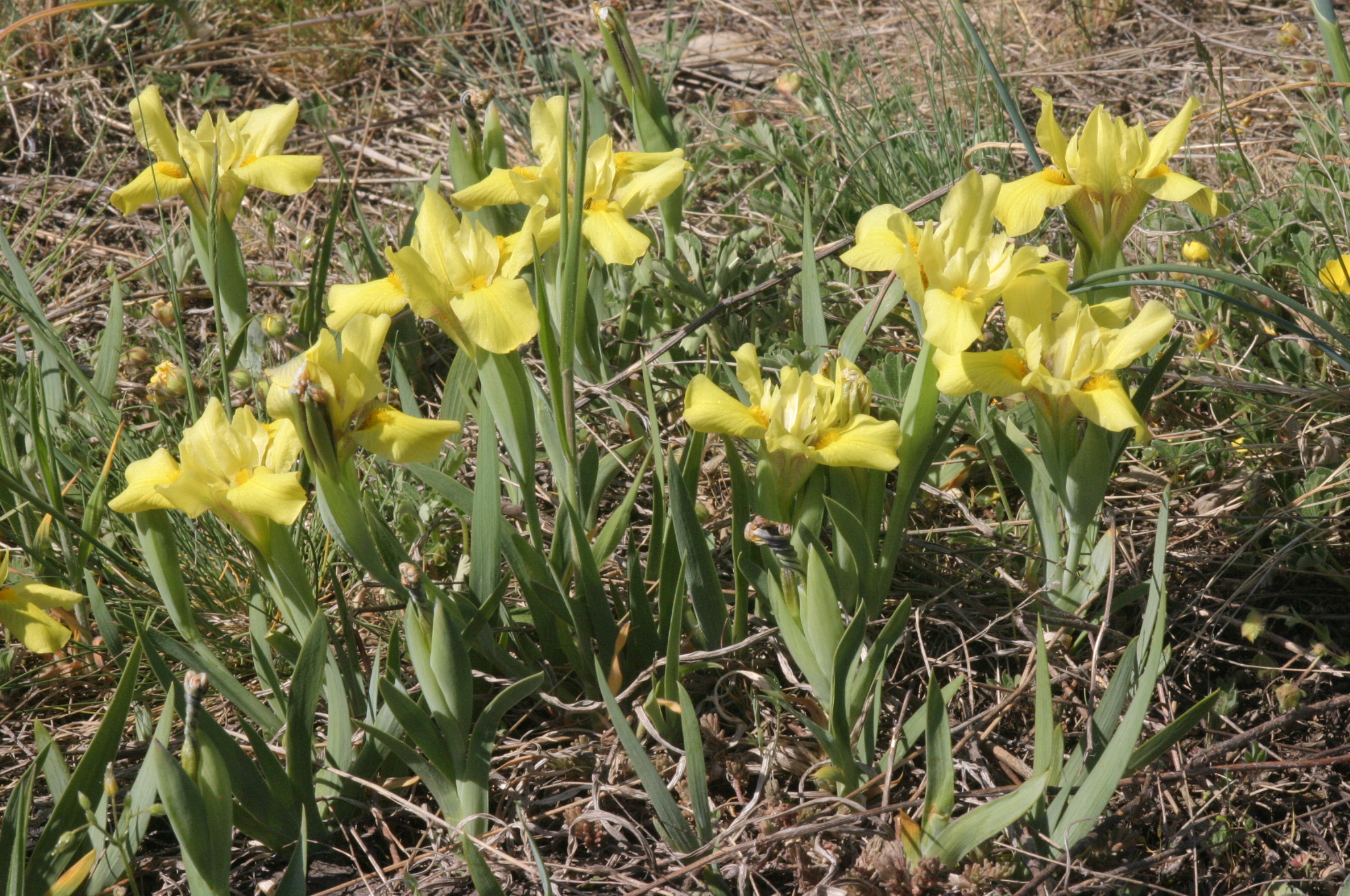 Iris humilis